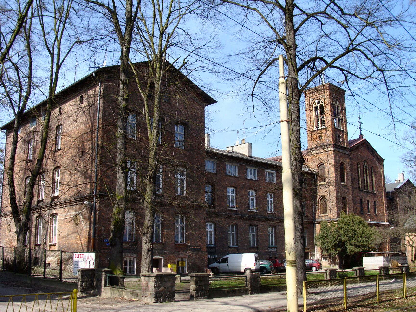 Former Bethanien Hospital in Szczecin